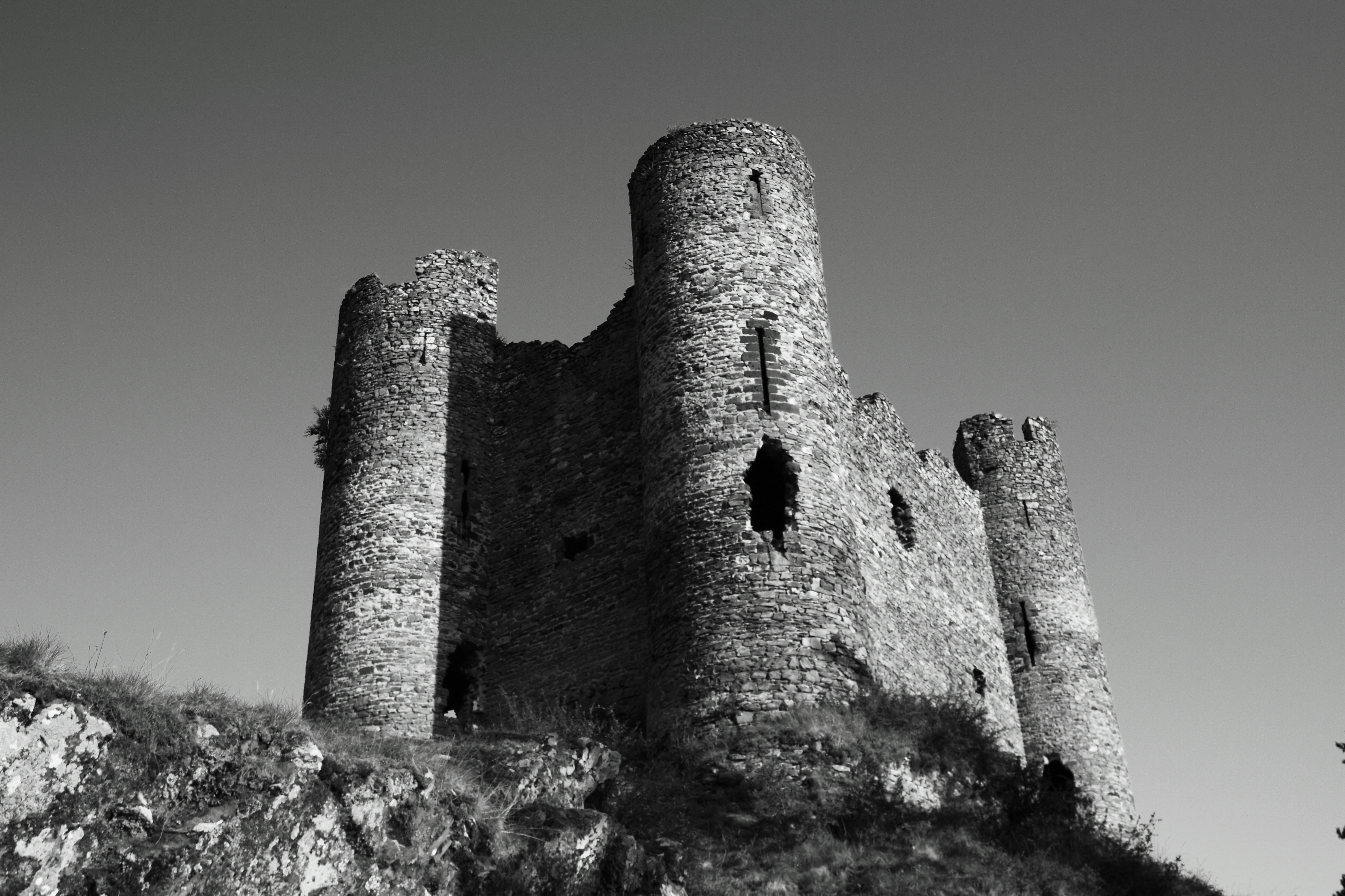 The Château d’Alleuze is a ruined castle situated in the commune of Alleuze, in the Cantal département of France. Built in the 13th century by the constables of Auvergne, it belonged to the bishops of Clermont. During the Hundred Years War it was seized for the English by Bernard de Garlan. For seven years, he sowed terror throughout the region, pillaging and holding to ransom. To avoid troubles from any Garlan successors, the inhabitants of Saint-Flour burned down the castle in 1405. Monseigneur De la Tour, owner of the castle, was very upset with this gesture, and obliged the Sanflorains to rebuild it on the original plan. It was taken by Huguenots in 1575. The towers were used as jails by the bishops of Clermont. The castle is built on a square plan, with round towers in each corner, characteristic of the 14th century. It includes a chapel, Saint-Illide, built in the 13th and 15th centuries. Today, the edifice is maintained as a ruin and has been listed, along with the chapel, since 1927 as a monument historique by the French Ministry of Culture.[1] According to the Michelin Green Guide to the Auvergne and Rhône Valley, which rates it as two stars (“worth a detour”), “There can scarcely be another beauty spot in the Auvergne as romantic as the site of this castle.”